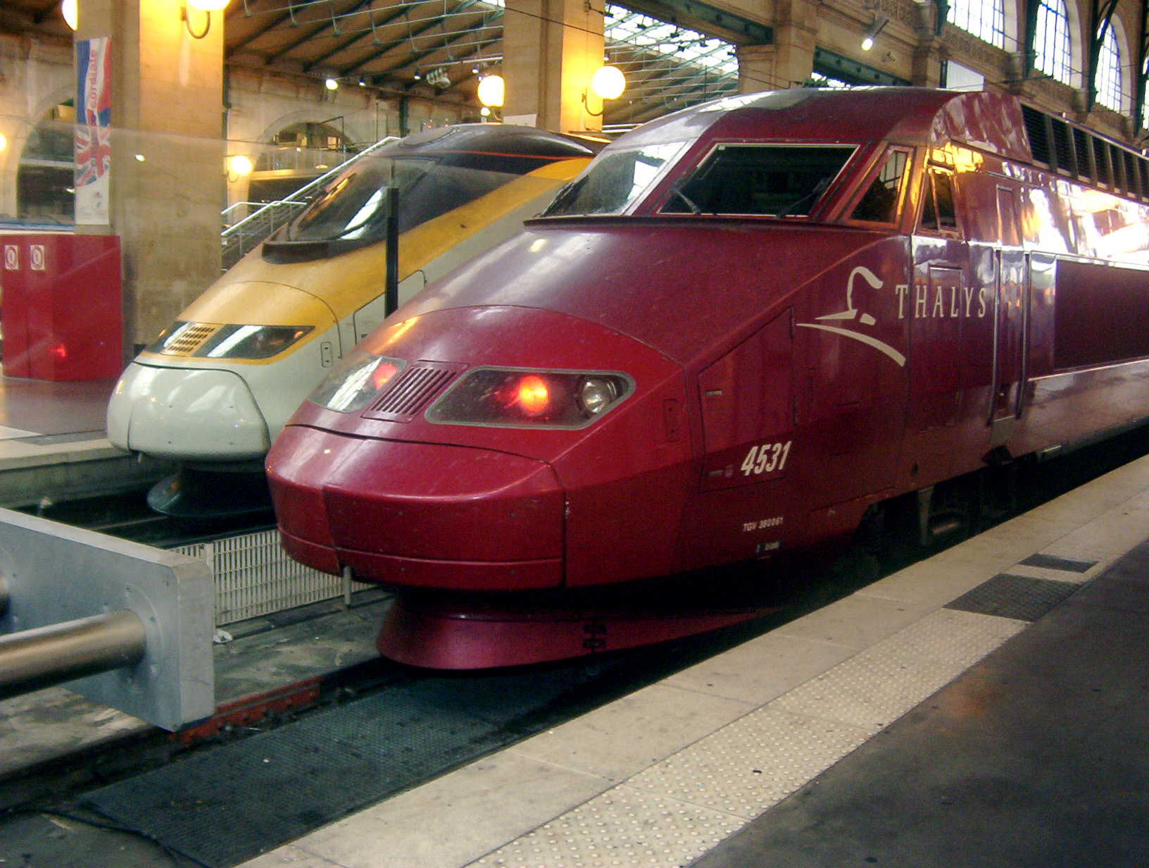 Eurostar and Thalys trains at Paris Gare du Nord. Willkm 00:47, 4 December 2005 (UTC)